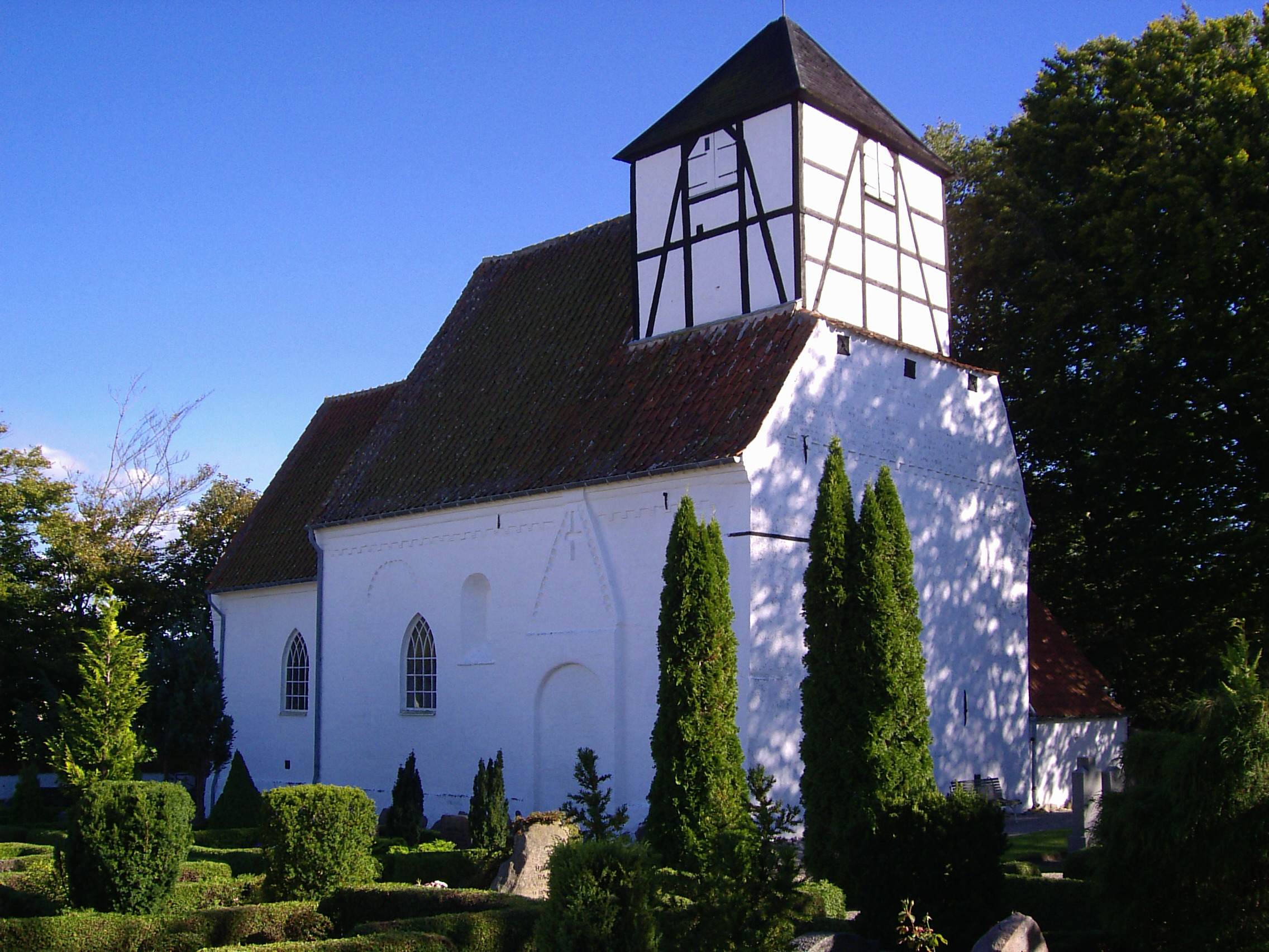 Church in Gurreby, Community of Højreby, diocese of Lolland-Falster. Date: 2005.09.17 Author: Sir48